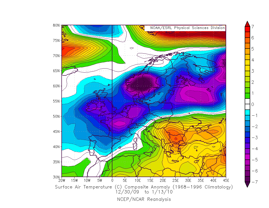 Surface temperatures anomalies for Europe, from December, 30 2009 to January, 13 2010, showing the second cold wave of the 2010 european winter.